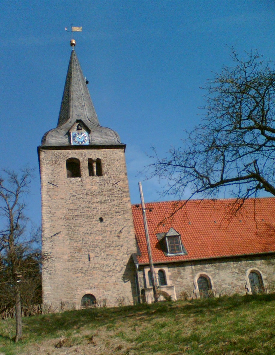 church in Immenrode, Germany